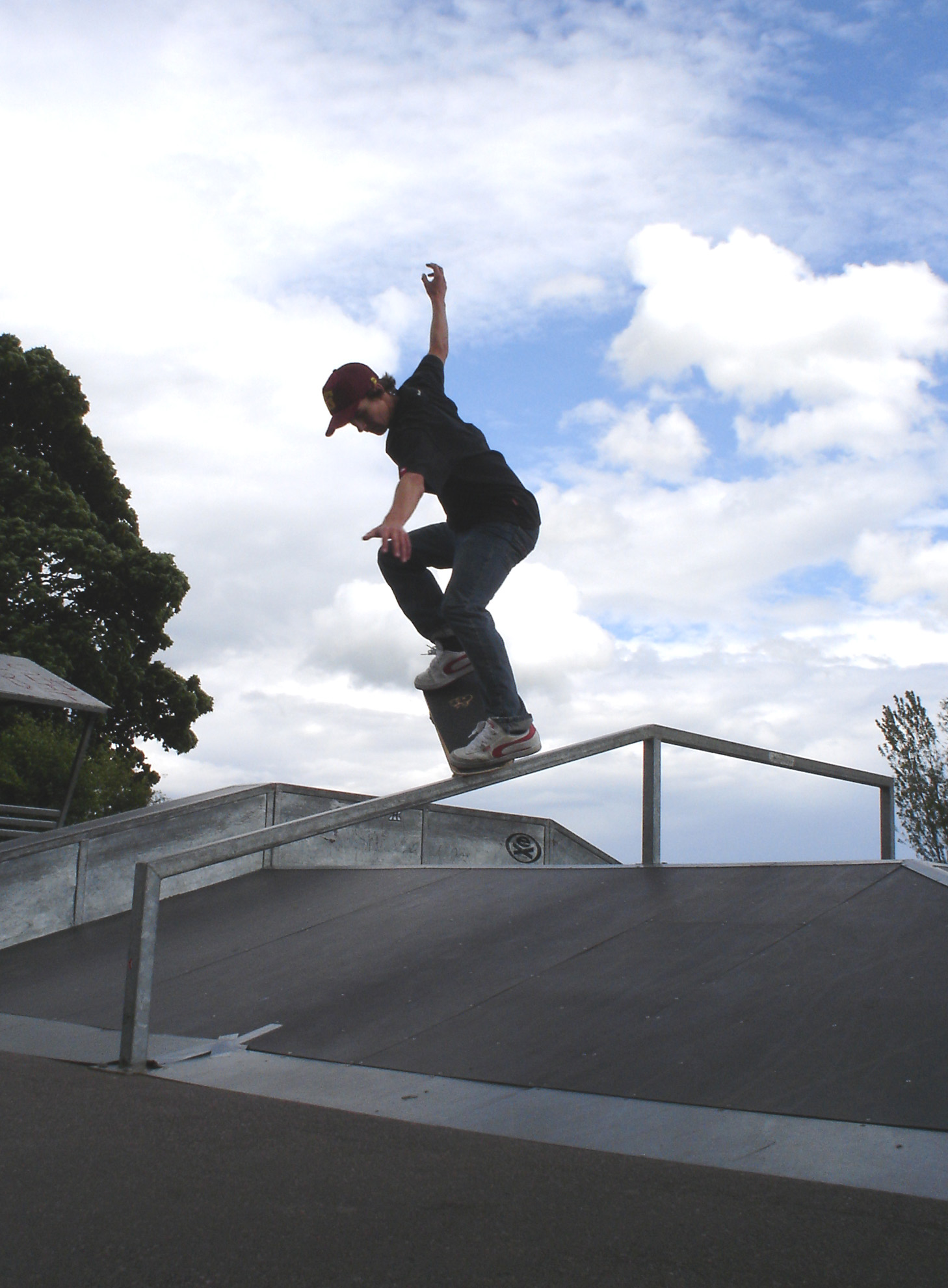 carl wilson again, this time with a crooked grind